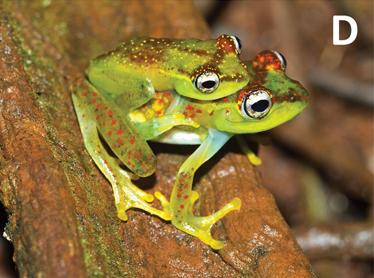 Boophis ankarafensis: Male holotype MRSN A6973 and female A6974.